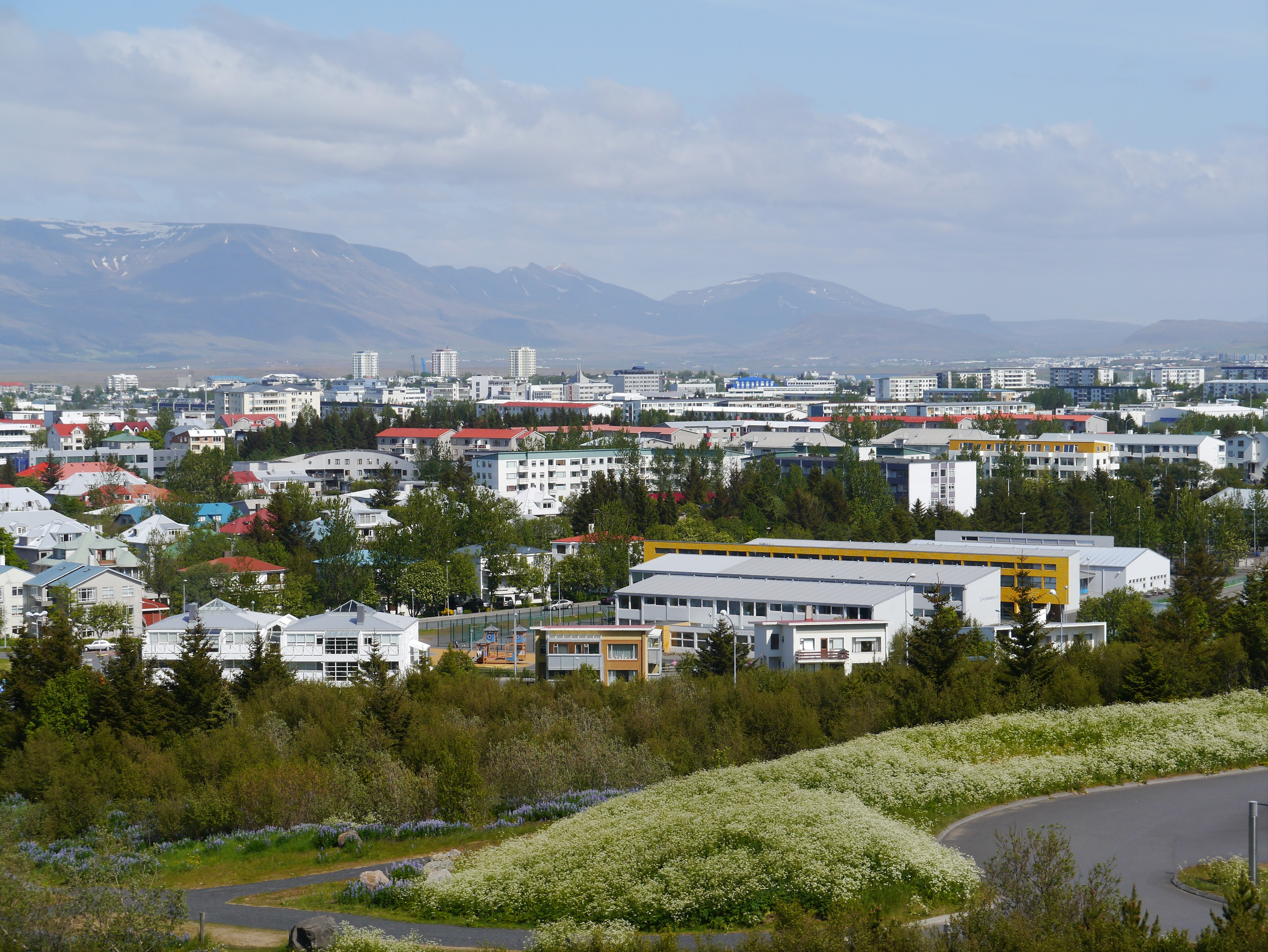 View from Perlan, Reykjavík